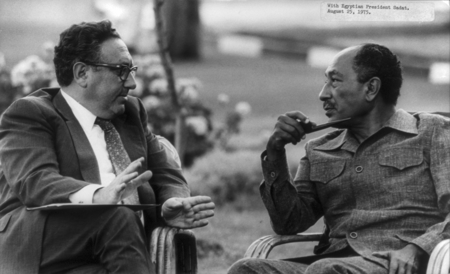 U.S. Secretary of State Henry Kissinger with Egyptian President Anwar Sadat.